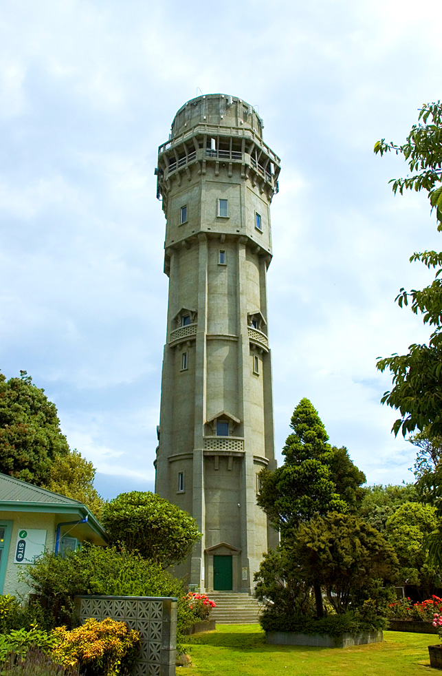 The water tower at Hawera (Taranaki region), New Zealand. New Zealand Historic Places Trust Register number: 143.